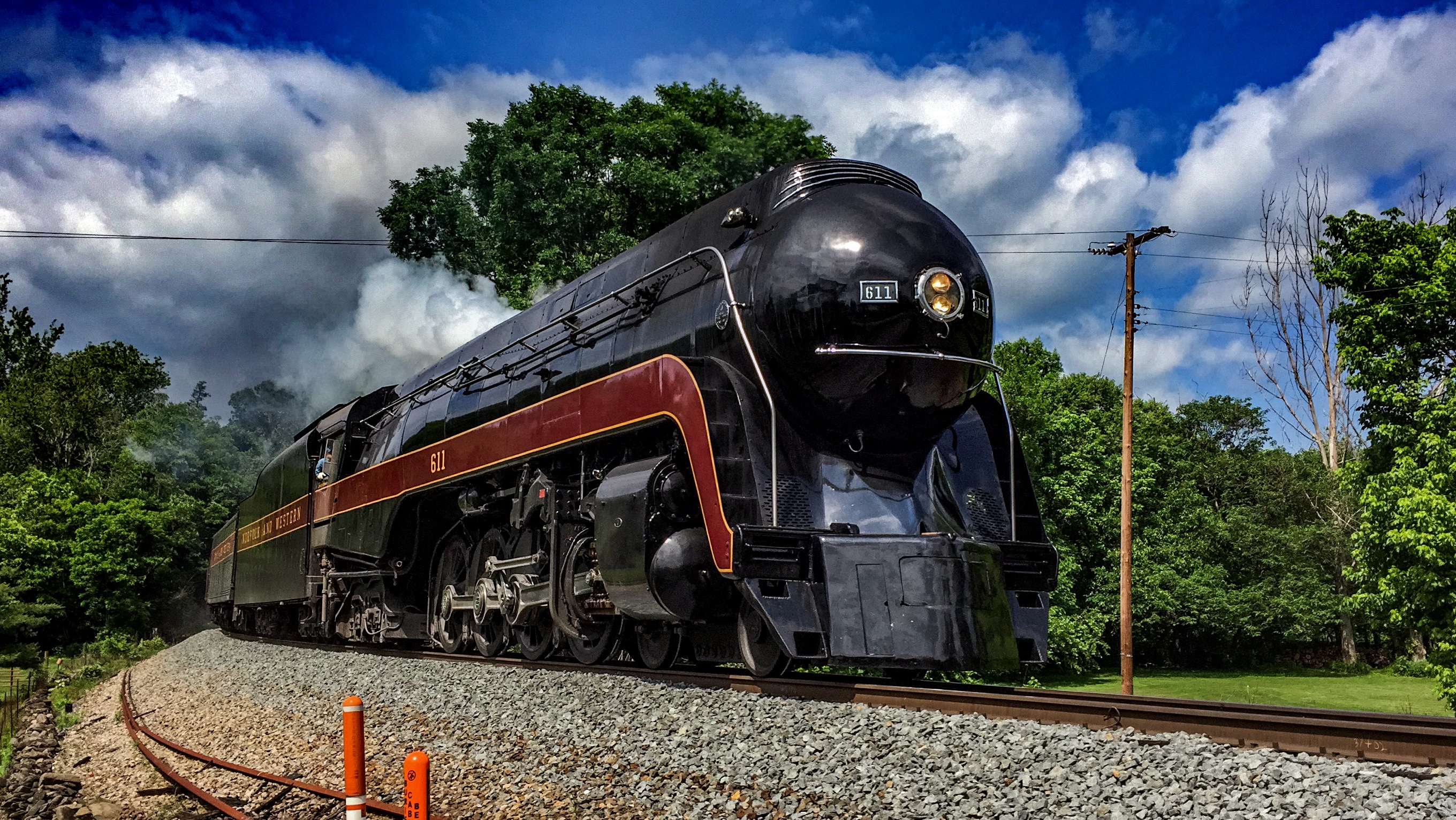 Norfolk & Western J Class 611 @ Leeds Manor Road grade crossing on June 7th, 2015.